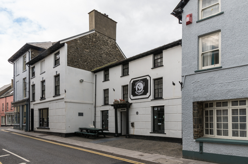 Yr Hen Lew Du (The Old Black Lion)